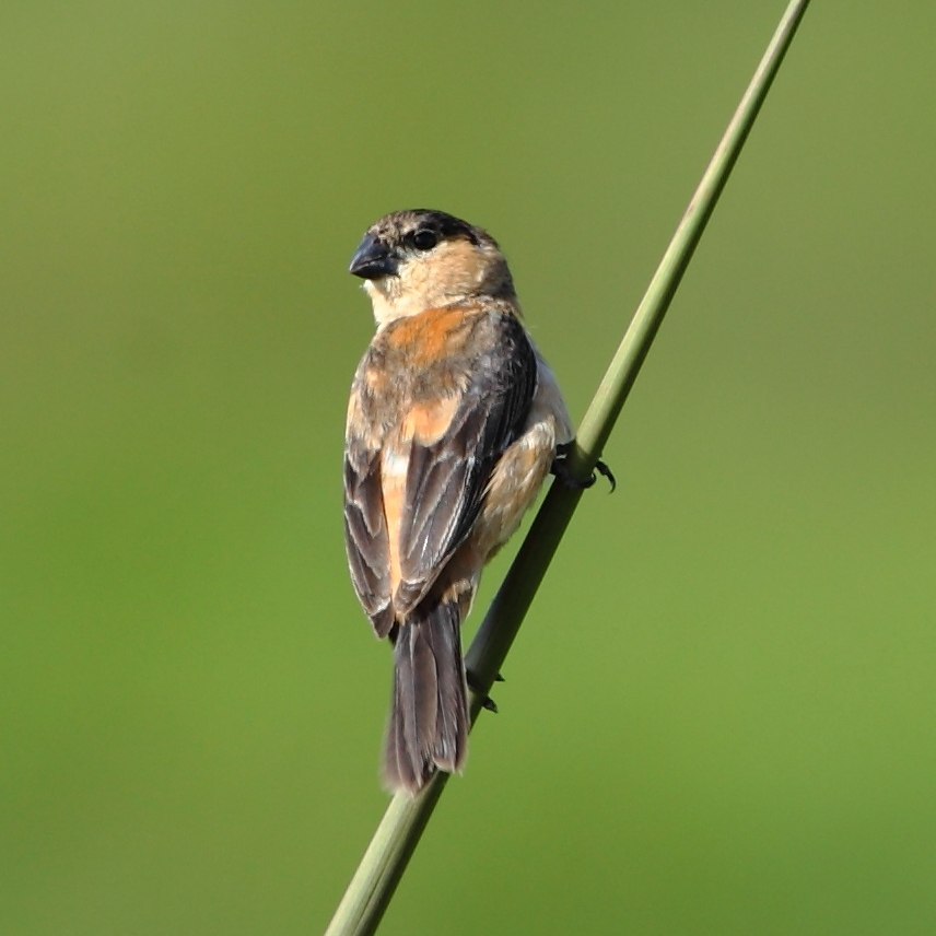 Copper Seedeater (male) at Mogi das Cruzes - SP - Brazil